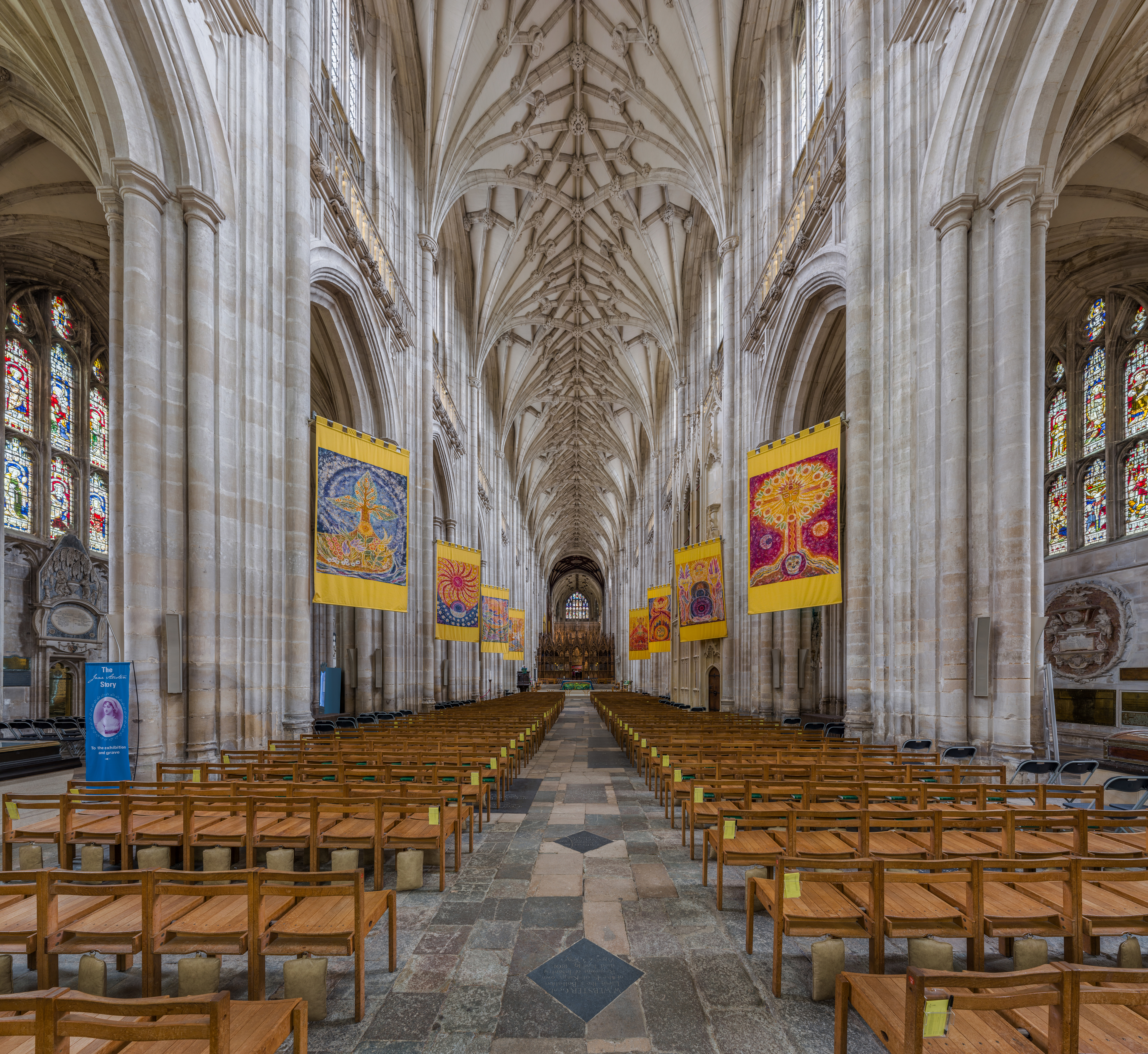 The nave of Winchester Cathedral as viewed from the west looking towards the choir